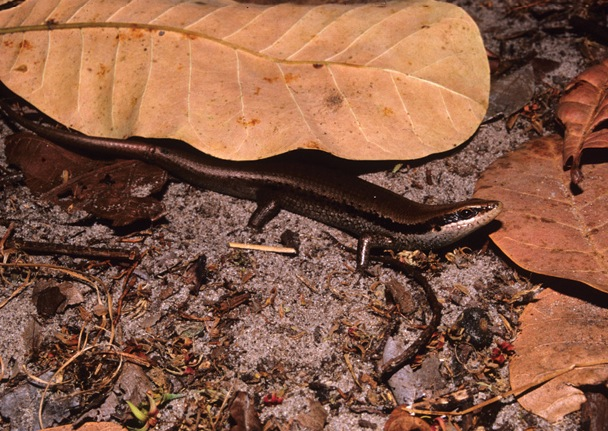 Varzea bistriata in Lençóis Maranhenses National Park, Maranhão State, Northeastern Brazil. Photo by J. P. Miranda.